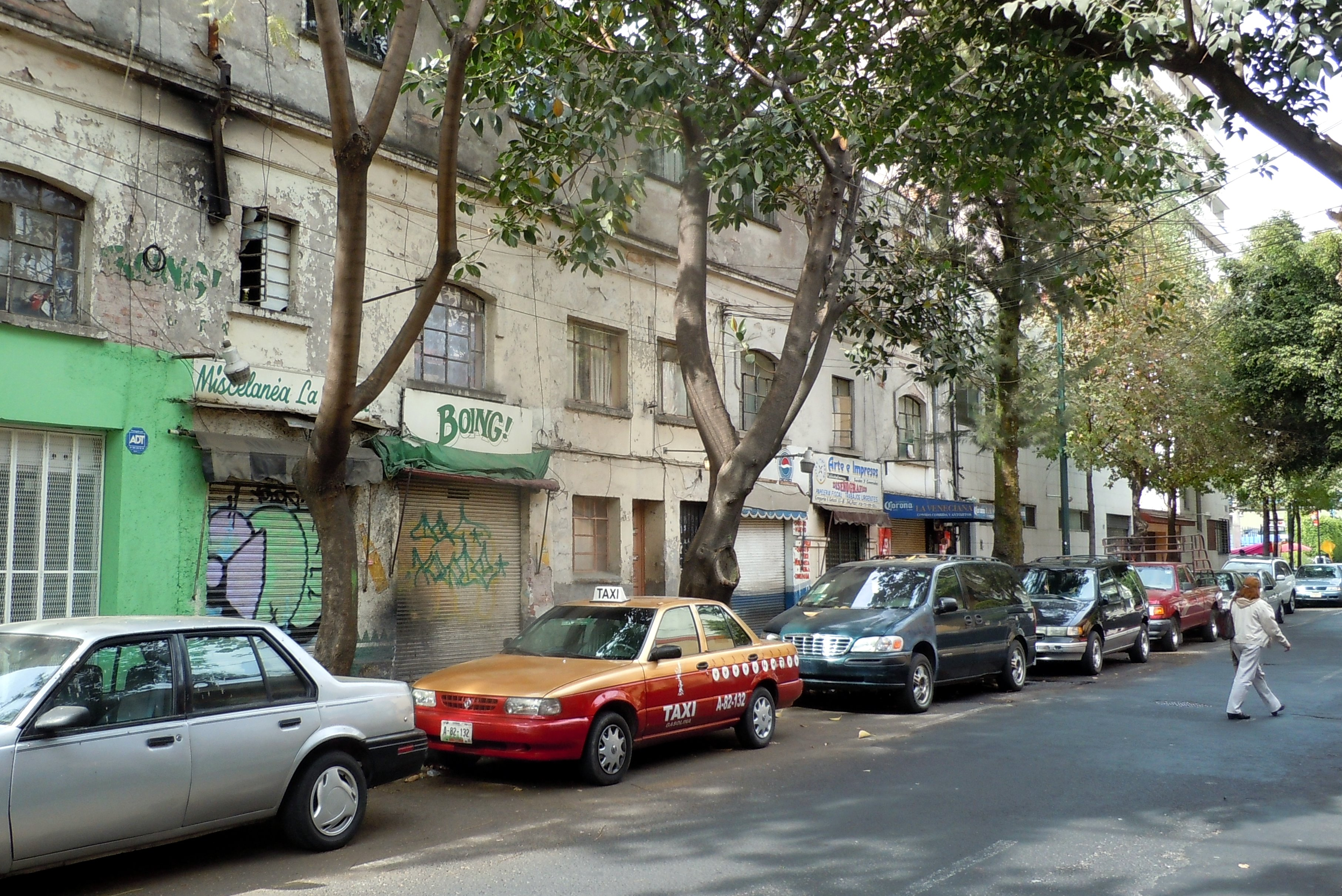 A street in San Miguel Chapultepec